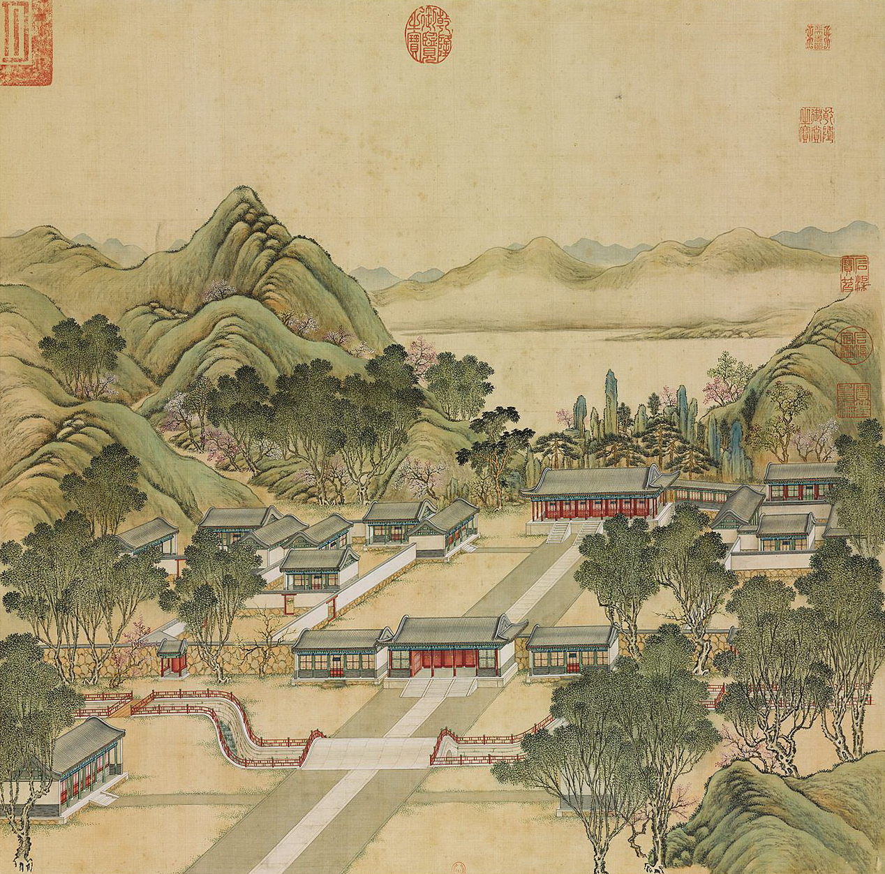 Zhengda guangming The Main Audience Hall, built to receive high officials or foreign guests